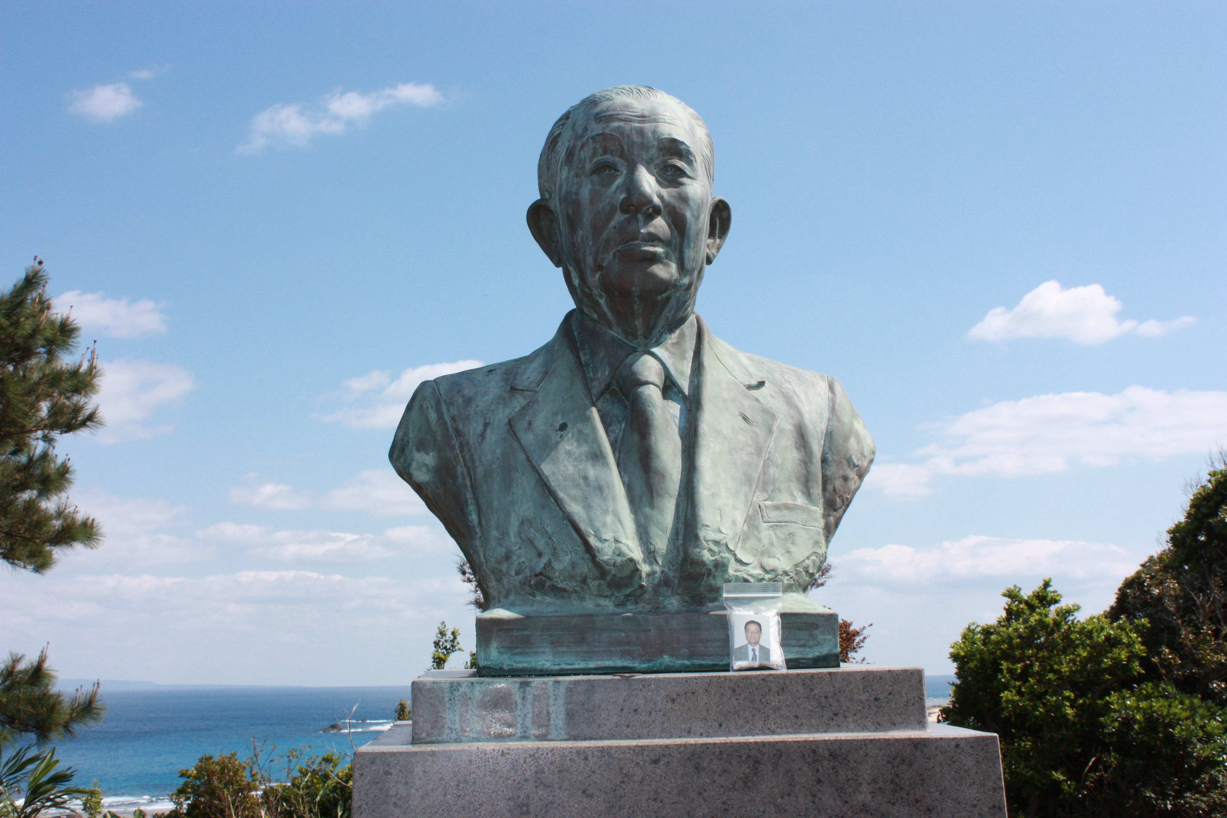 Mr.Yoshitatsu.Nagano is known as the Great Emancipator in Amami.